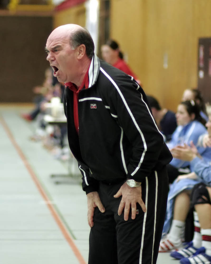 Jürgen Gerlach, on March 19th 2006 in Bensheim, during the match HSG Bensheim/Auerbach - TV Mainzlar (2nd German Divison)